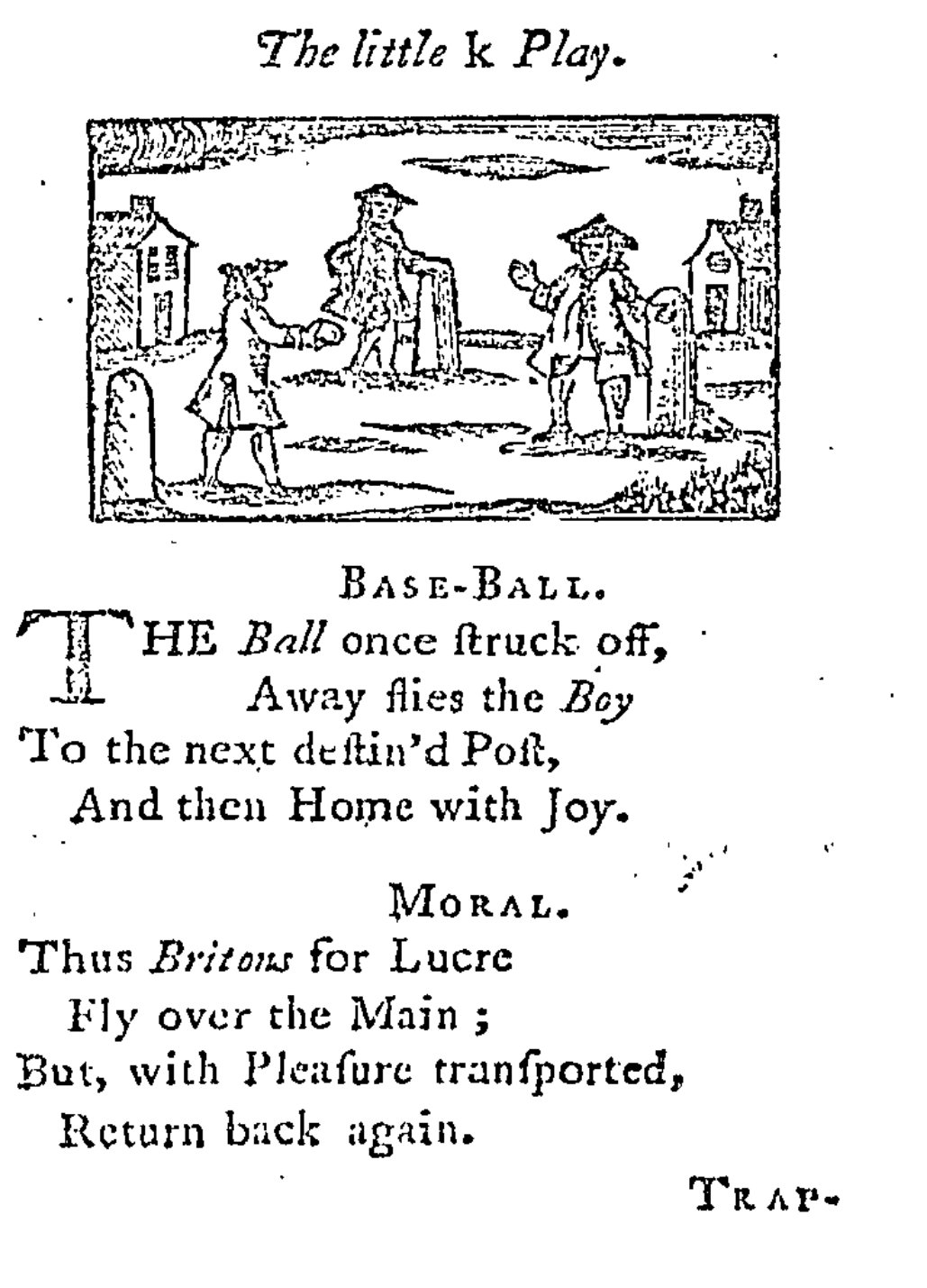 Page on baseball from A Little Pretty Pocket-Book, the first known mention of baseball.[1]